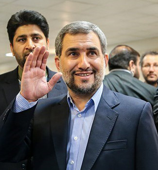 Esmaeili in Iran's Ministry of Interior to register as candidate for Assembly of Experts